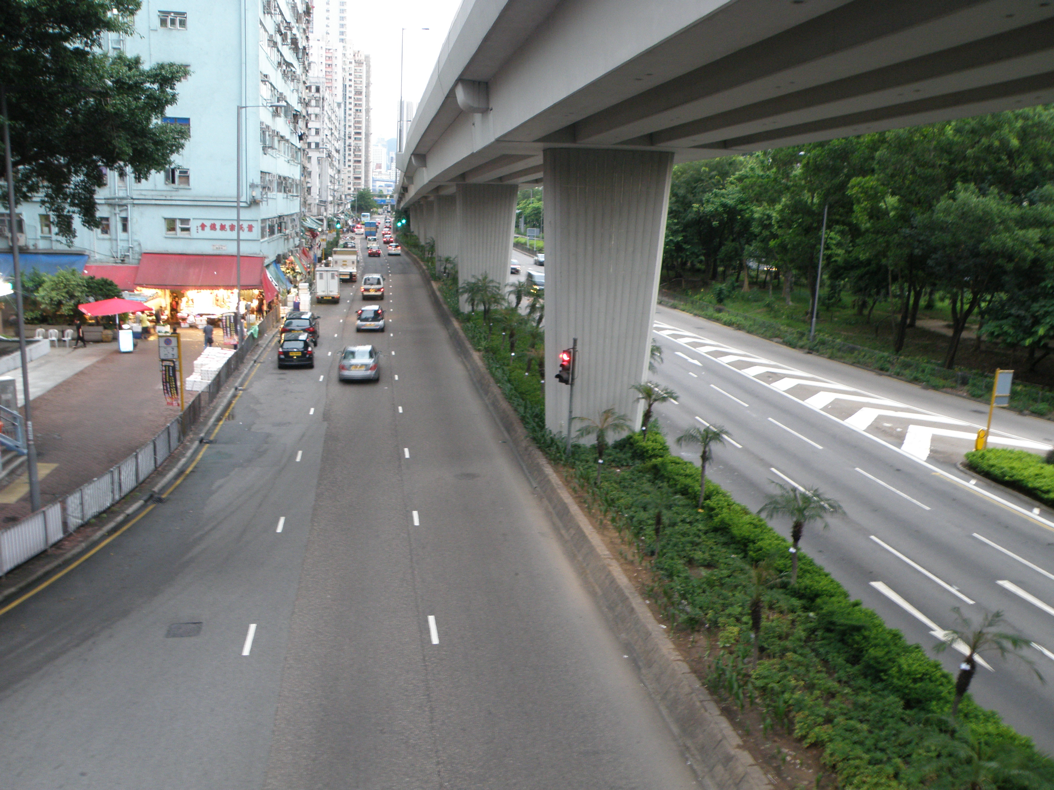 Ferry Street (near Tong Mi Road), Hong Kong.